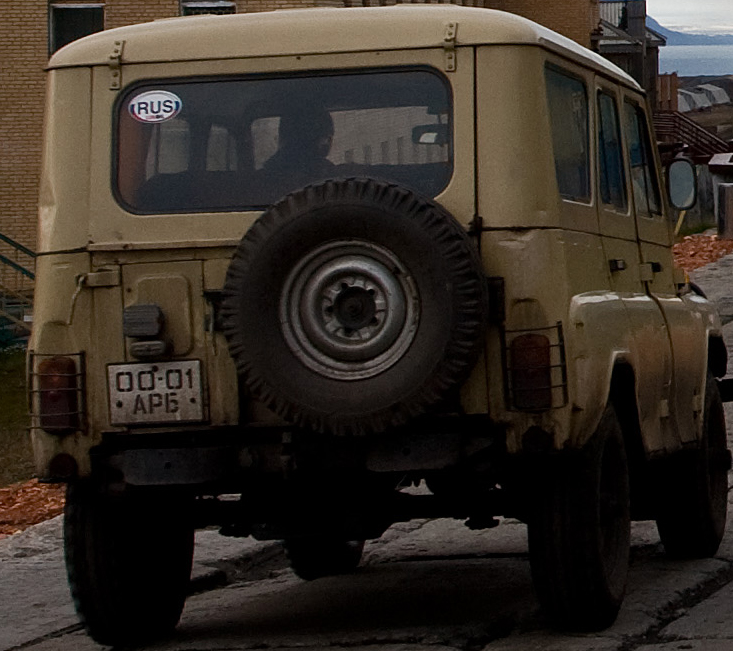 Automobile in Barentsburg, Svalbard